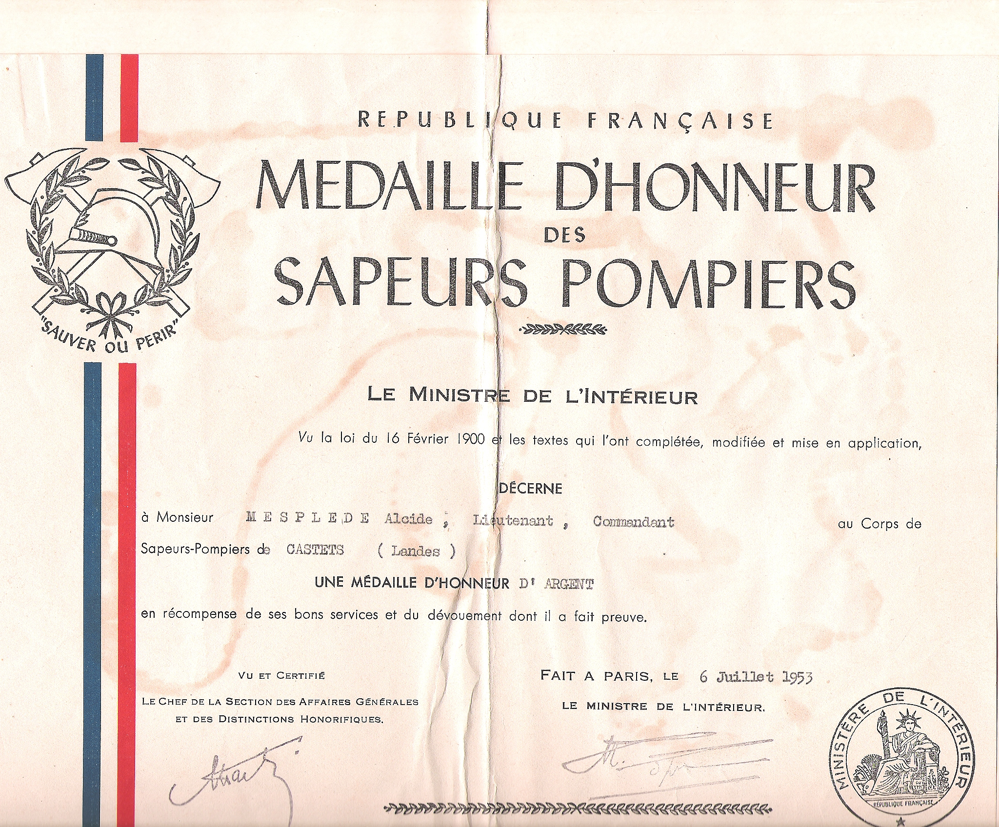 Grant's degree medal of honor firefighters money. This image has a document issued by the French government: the copyright or copyright does not apply to both original and copy.